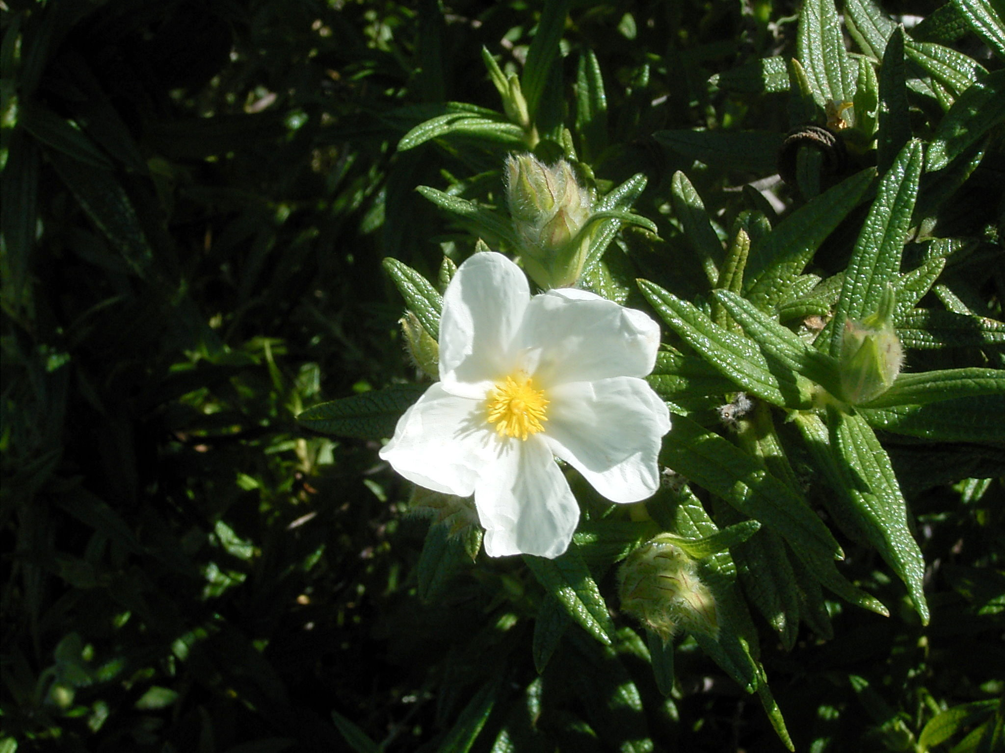 Cistus_monspeliensis growing in Puntagorda, La Palma, Canary Islands